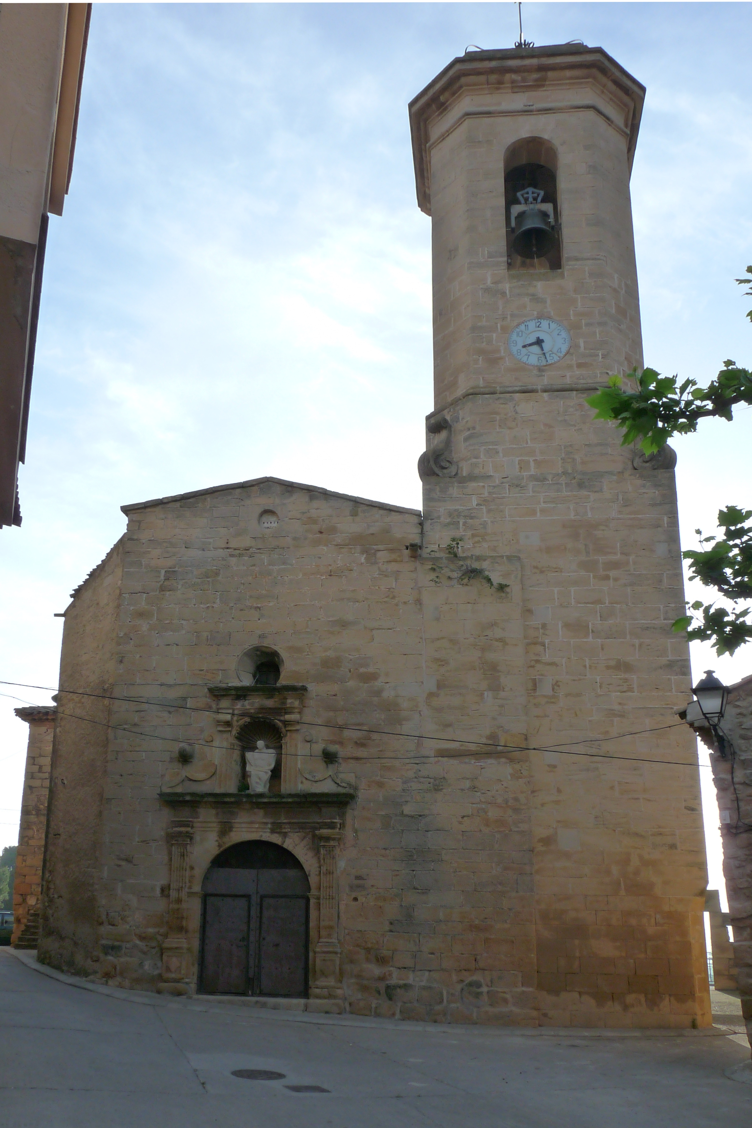 Church of Santa Maria, el Vilosell